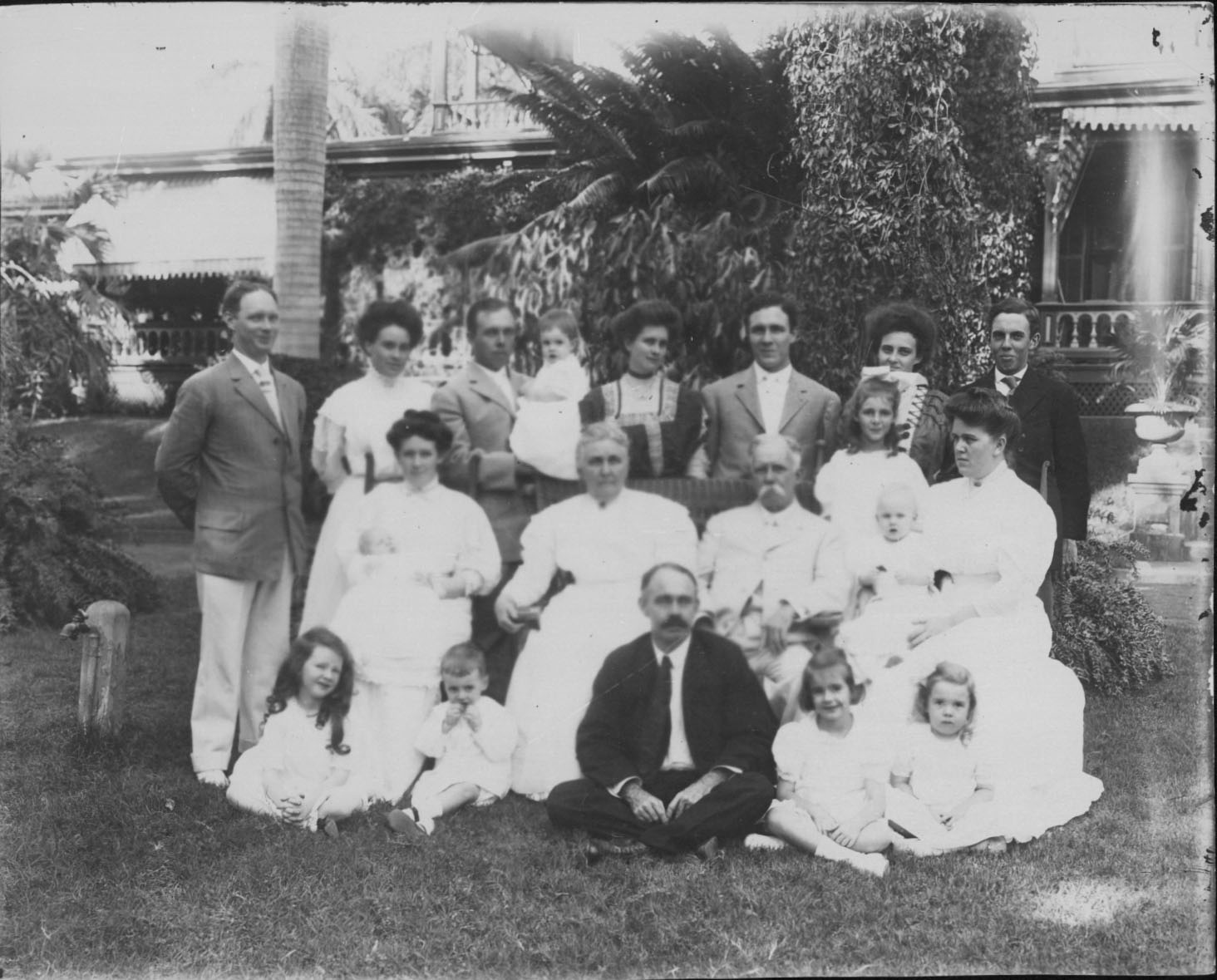 Charles Montague Cooke and his wife and family.